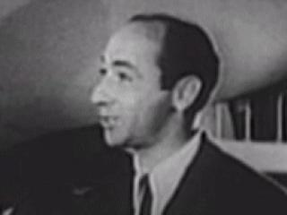 Ben Lessy from the film Second Chorus (1940)